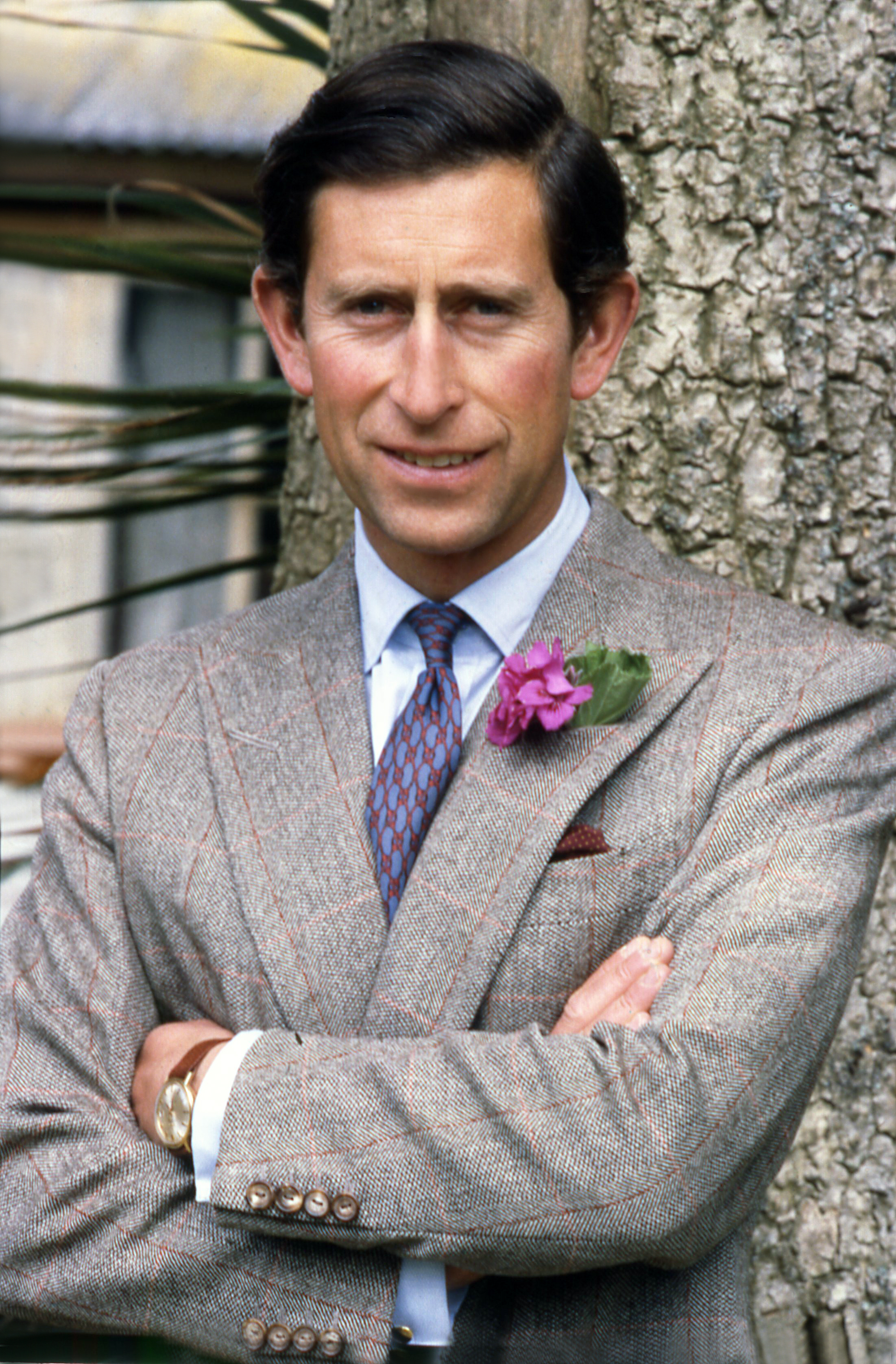 HRH The Prince of Wales taken on the Scilly Isles U.K.